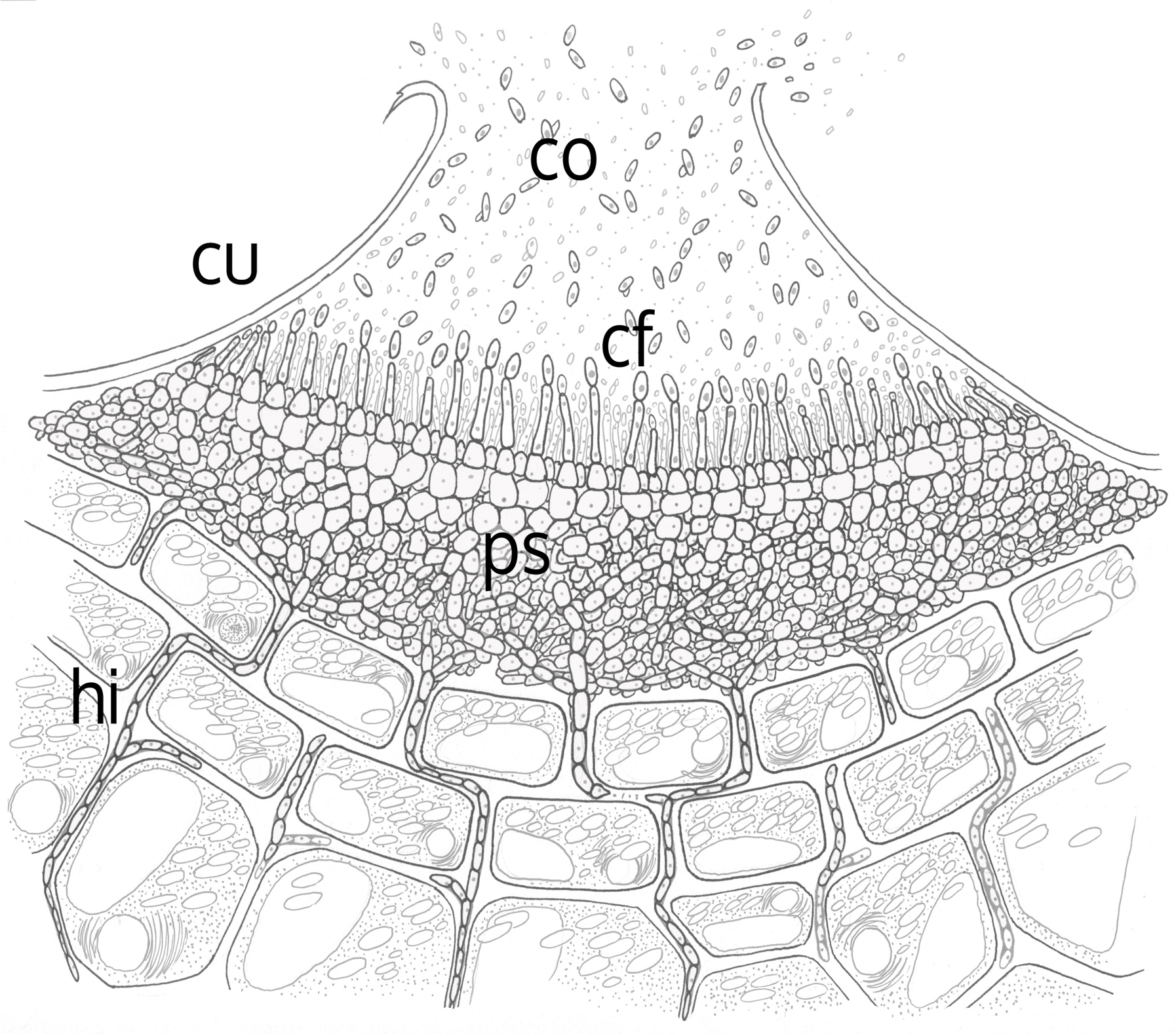 Acervulus morphology. Legend:cu: cuticle, co: conidium, cf: conidiophore, ps: pseudo-parenchymatic stroma, hi: hypha.